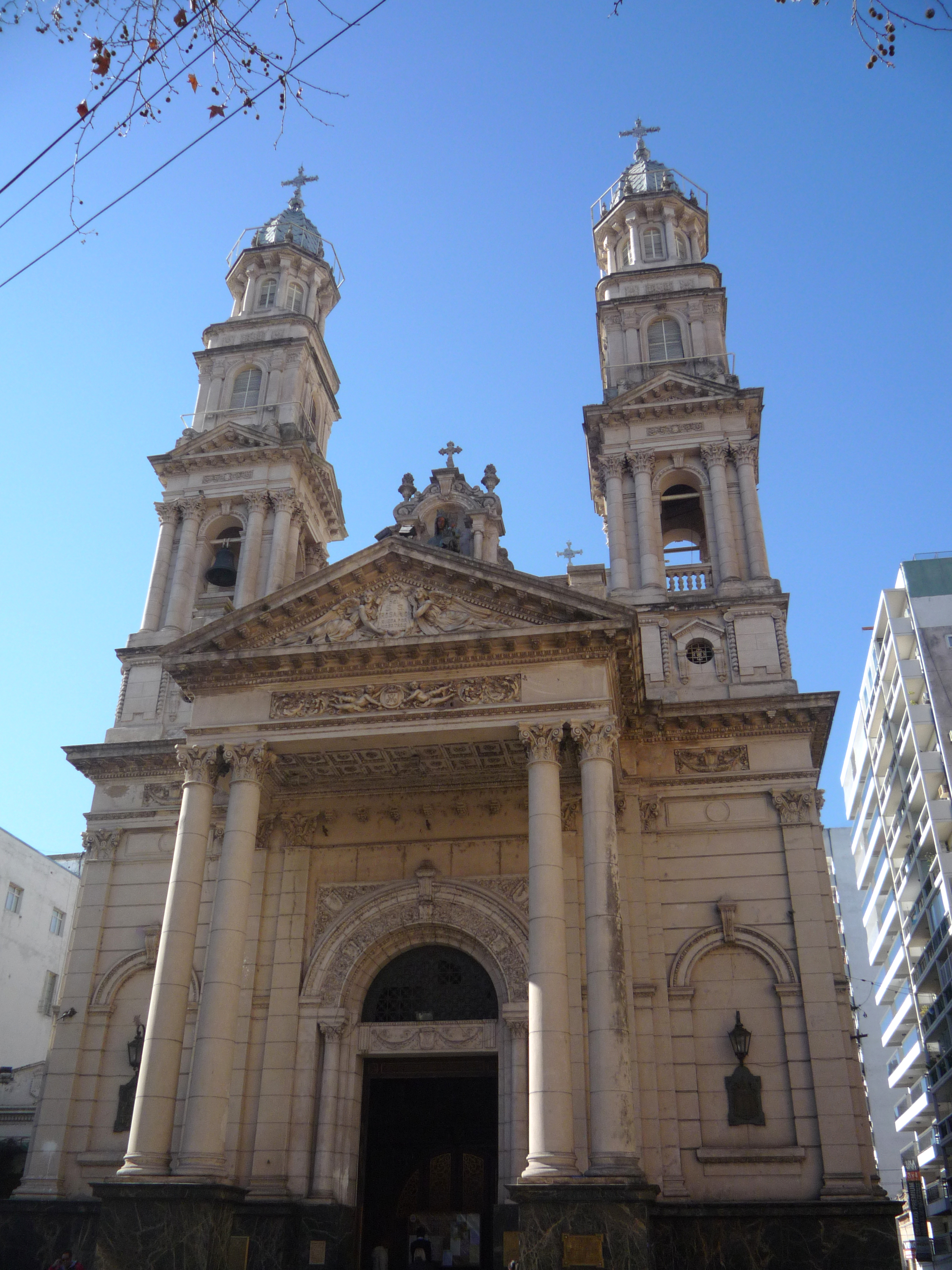 Main facade of Rosario Cathedral